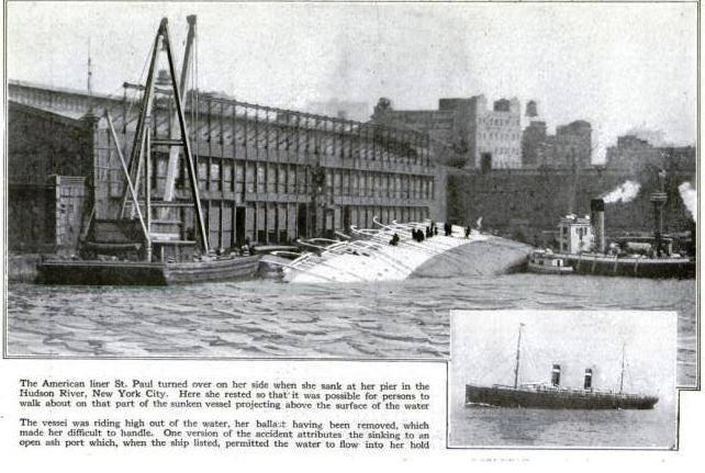 Photo of the USS St Paul capsized at her pier in New York City during refit for war duty.